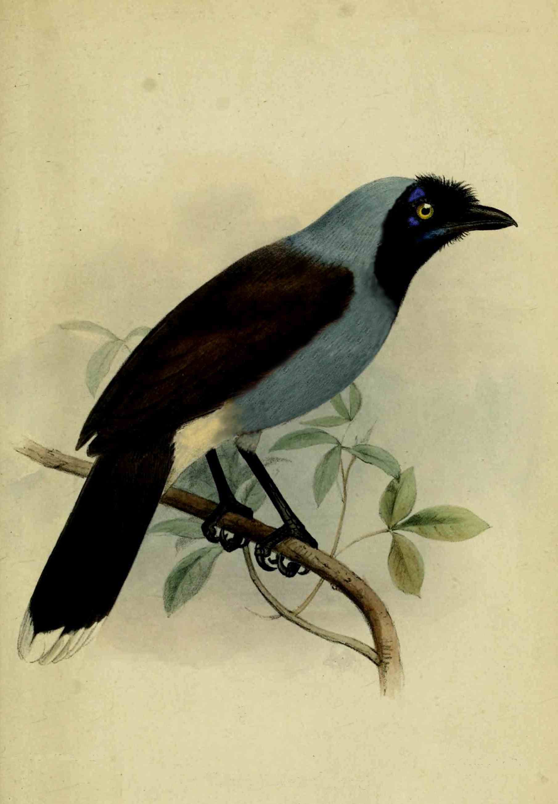 Cyanocorax heilprini hafferi, drawing (based on Cyanocorax heilprini heilprini by Joseph Smit).